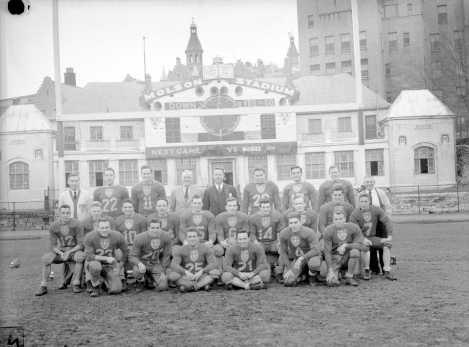 We see the coaches and players of a football team from McGill University in the field of Molson Stadium.